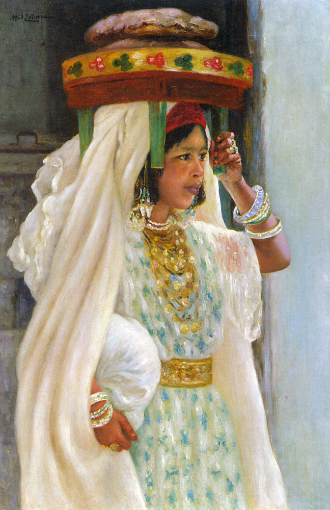 An-Arab-girl-carrying-bread